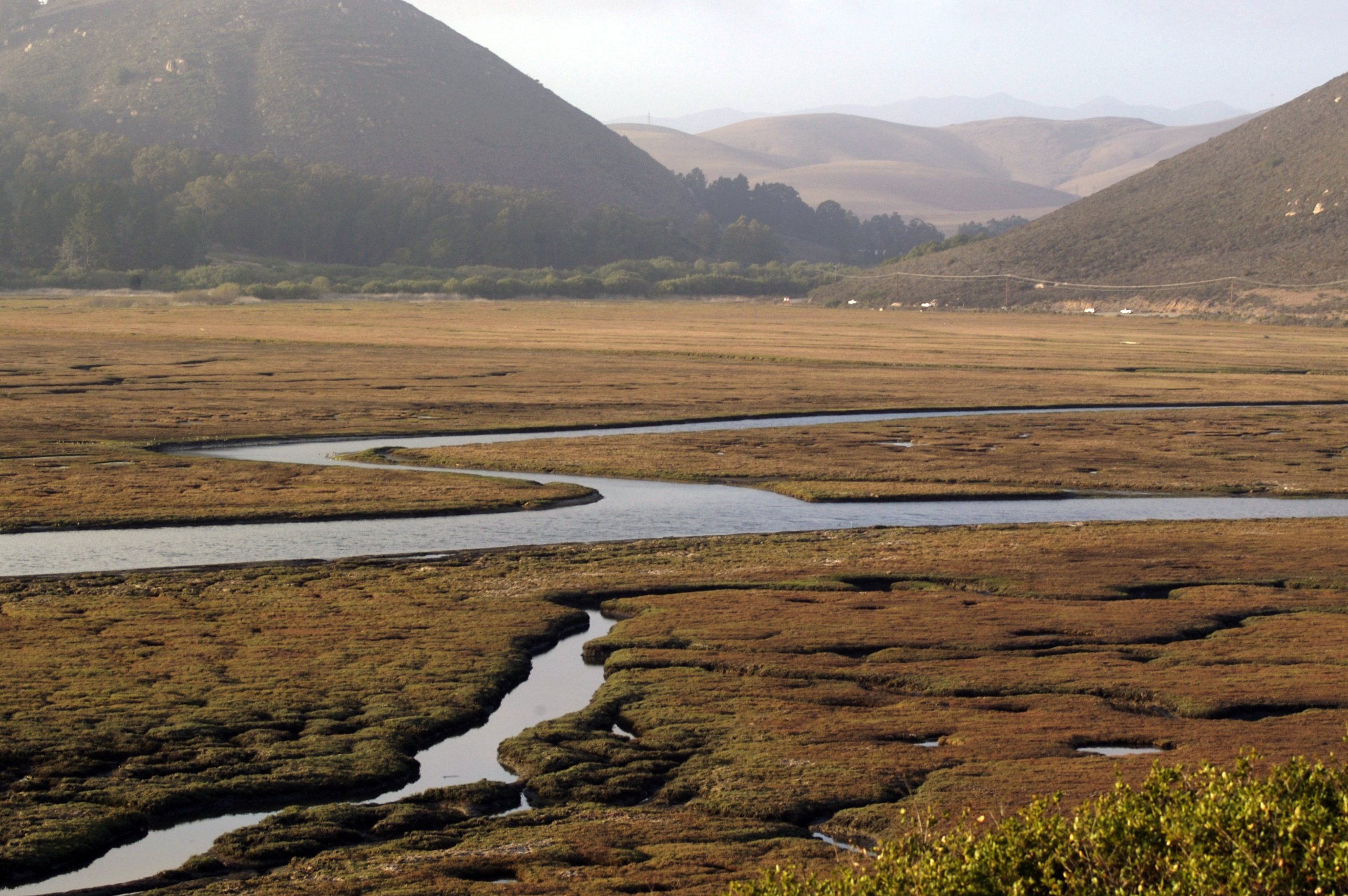 View of the salt marsh from a lookout point at Elfin Forest.